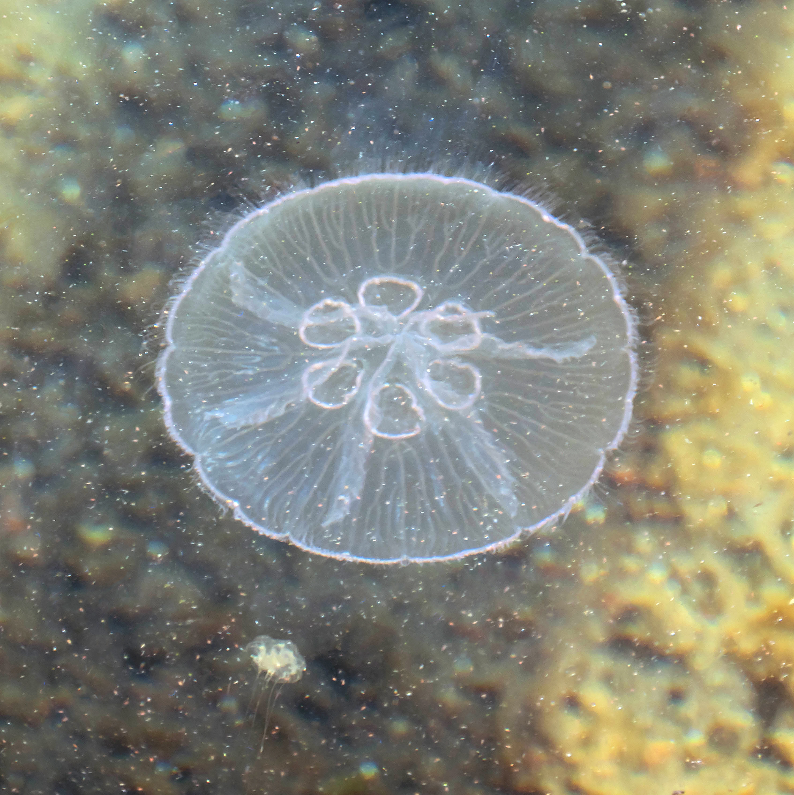 Unusual moon jellyfish (Aurelia aurita), about 6–7 cm (2.4–2.8 in) in diameter, with six gonads in Gullmarn fjord at Sämstad, Lysekil Municipality, Sweden. Below it is a tiny lion's mane jellyfish (Cyanea capillata), recently developed from its scyphistoma form into a medusa.